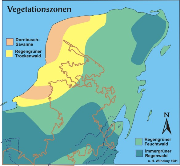 Peninsula Yucatan, Mexico: plant cover